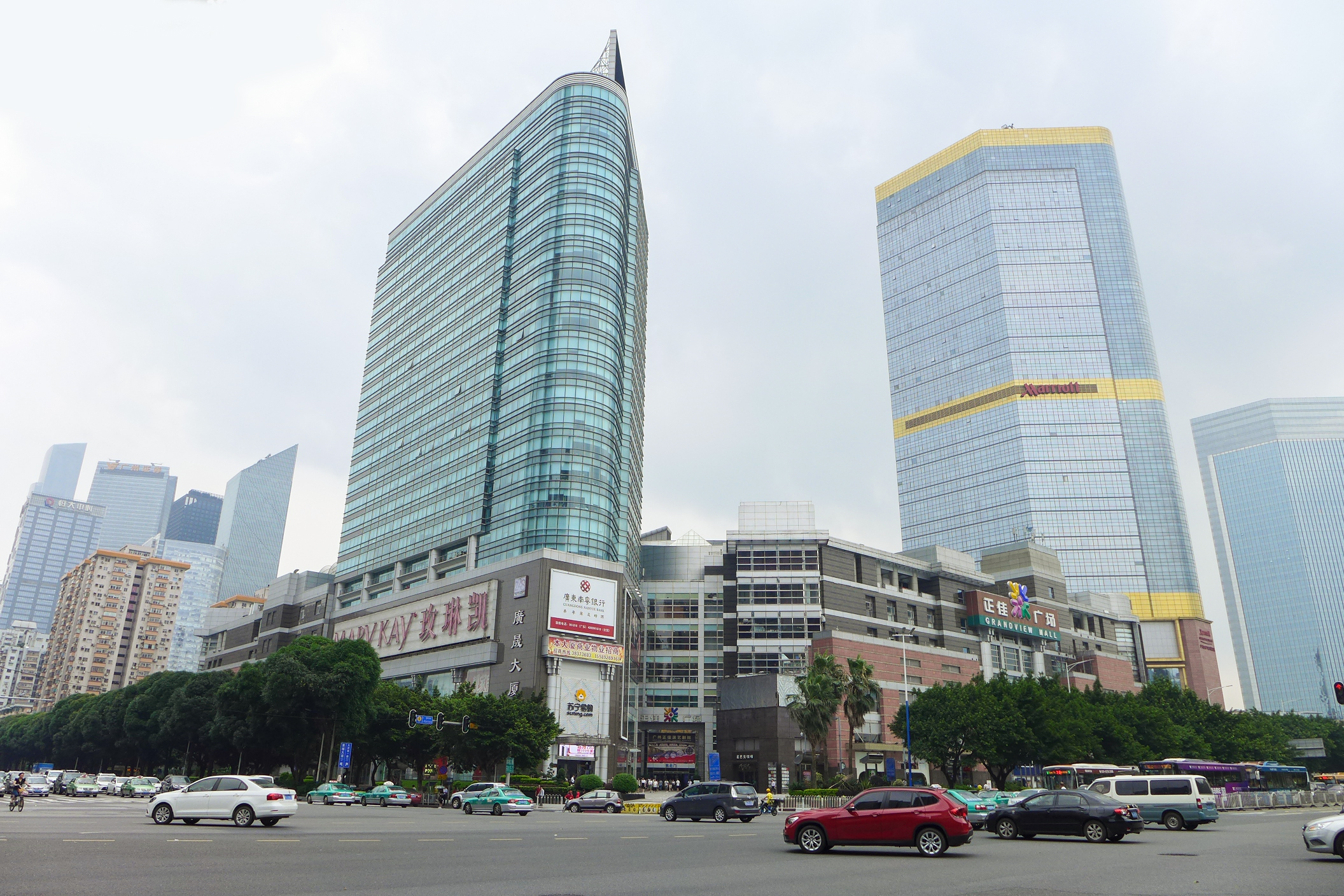 Grandview Mall